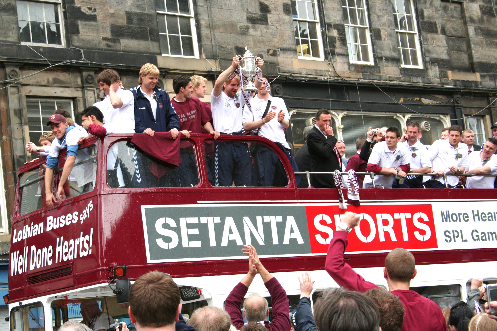 Players of Heart of Midlothian F.C. on an open-top bus parade after their victory in the 2006 Scottish Cup Final. The bus is a Lothian Buses Routemaster, painted in the team colours.